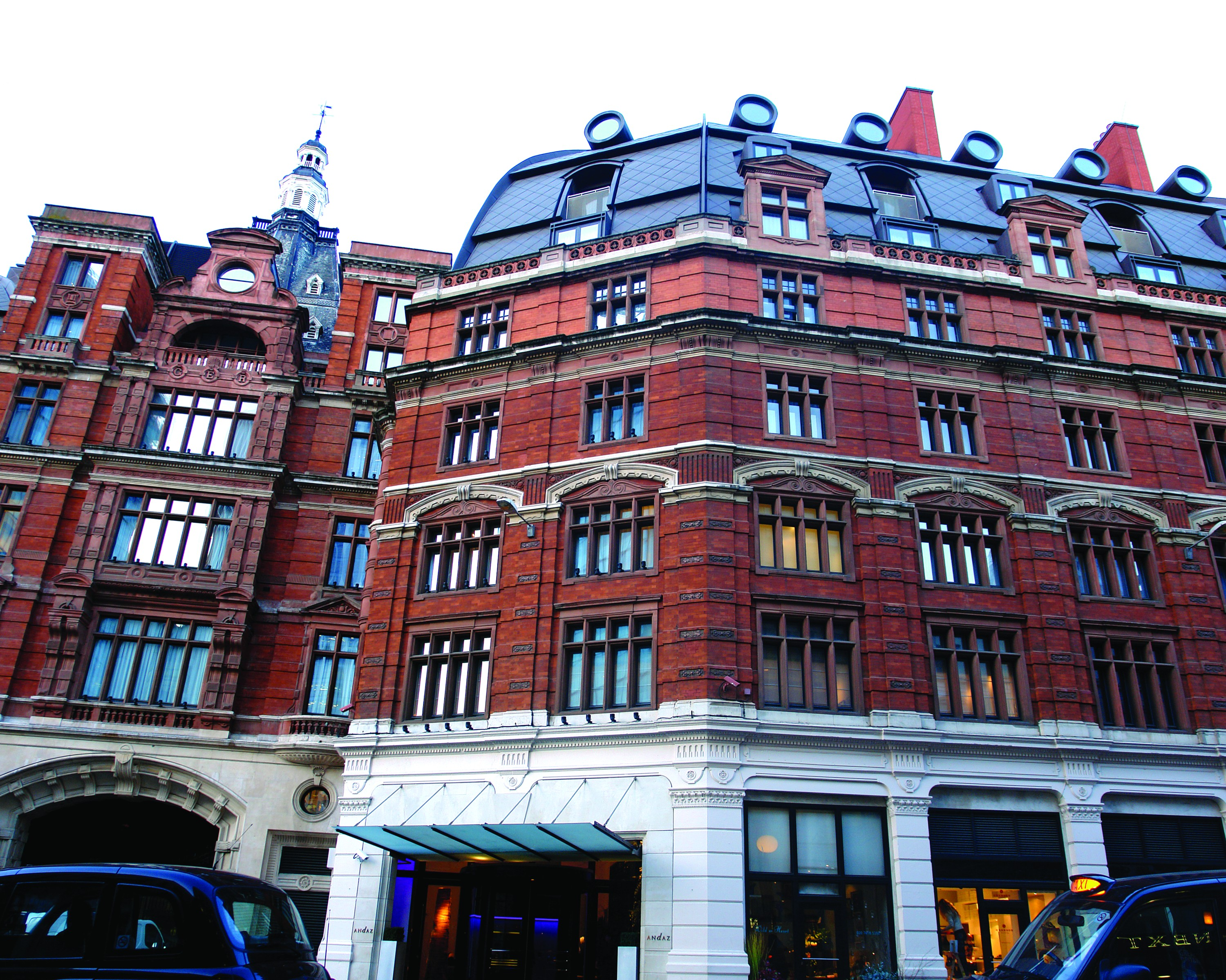 Andaz Liverpool Street main façade